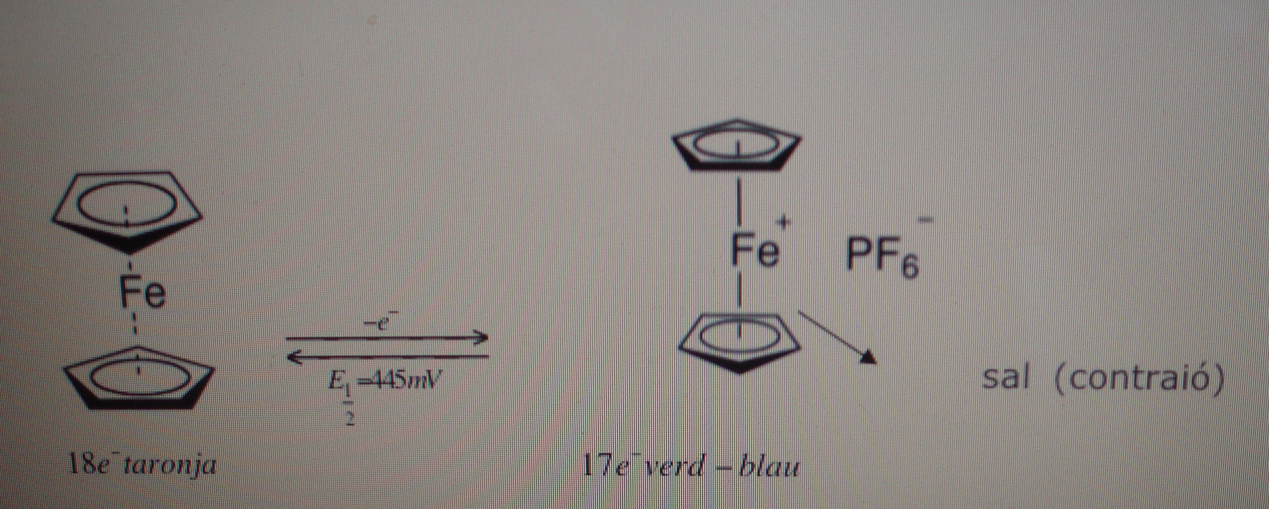 sal de ferroceni